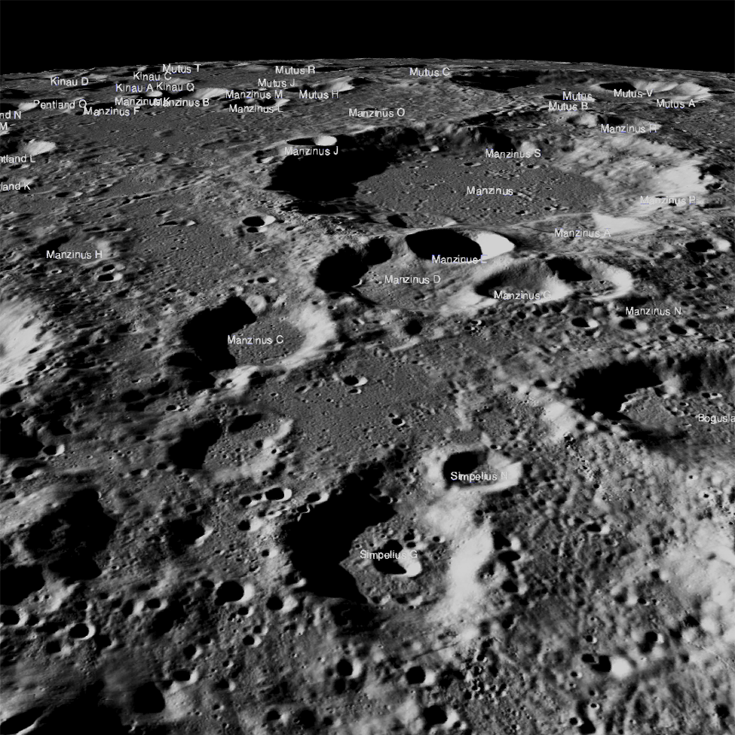 The flat highland between Simpelius N and Manzinus C craters was the planned landing zone for India's Vikram lunar lander. Image obtained by NASA's LRO intended to find the lost lander, known to have crash-landed on 6 September 2019.